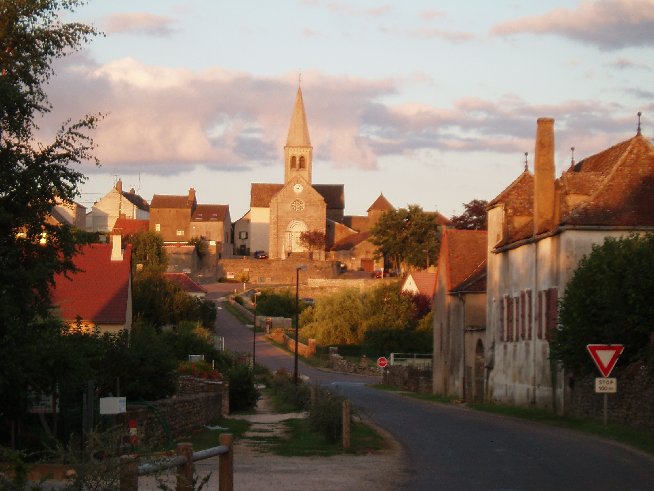 Aluze church.